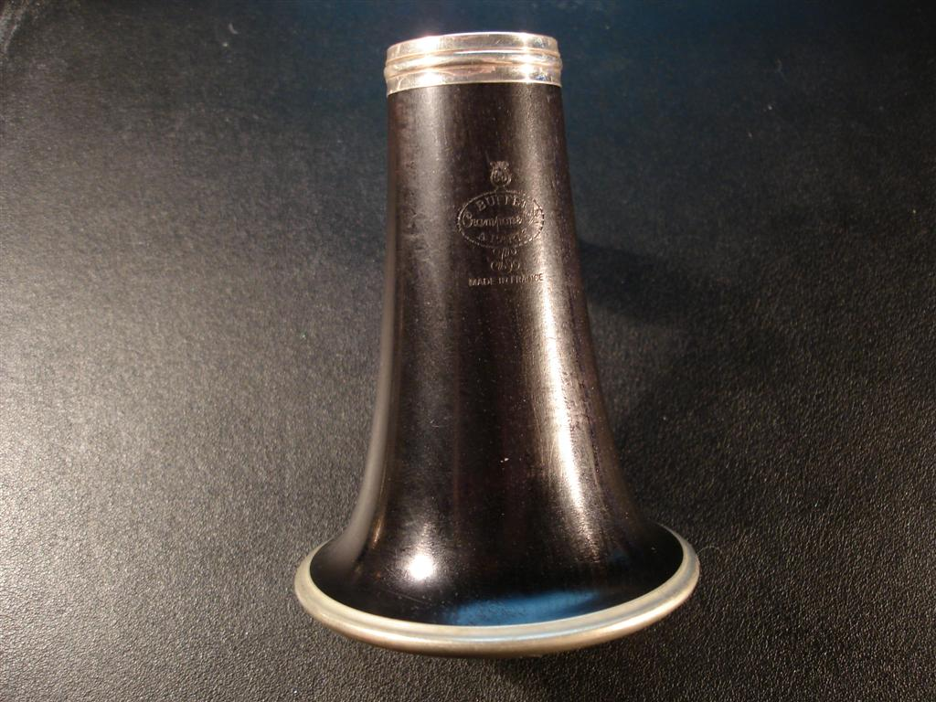 Buffet R13 Bb Clarinet Bell.